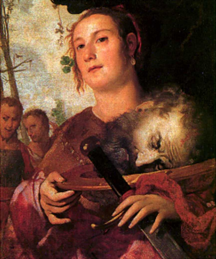 Woman holding sword with head in a bowl. Contested meaning.